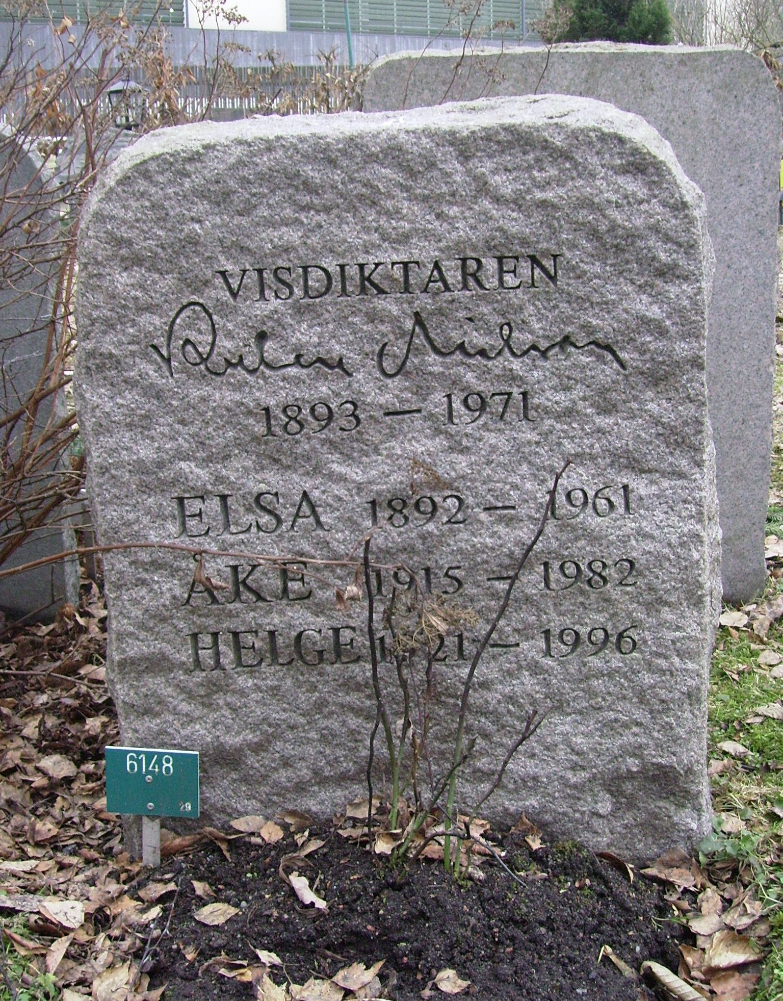 Picture of Ruben Nilsson's grave at Solna kyrkogård